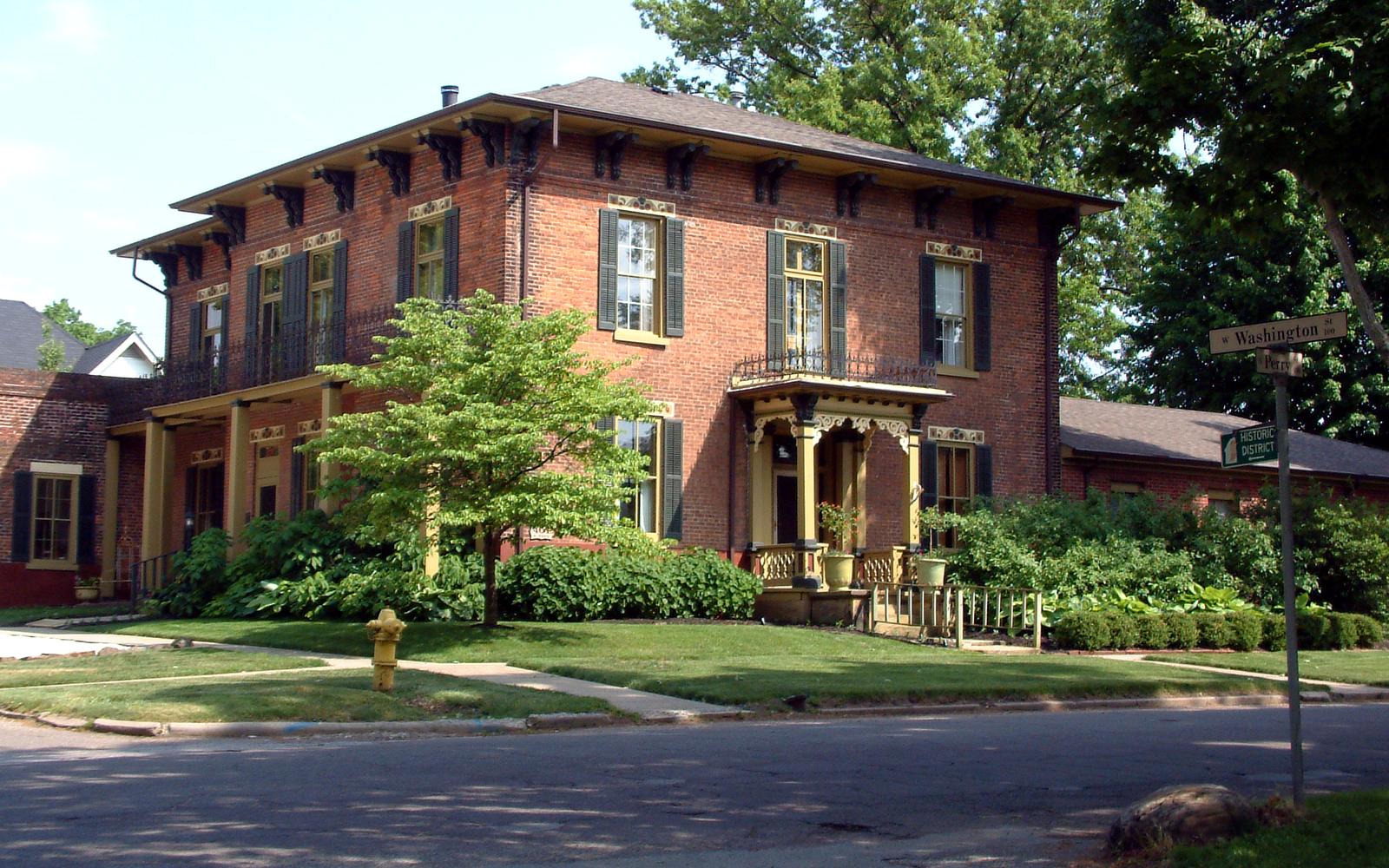 Front of the Schlosser Family Home, located at 401 S. Perry Street in Attica, Indiana. Photo looks southeast from the corner of Perry Street and Washington Street. Built in 1865, it is part of the Brady Street Historic District, a historic district that is listed on the National Register of Historic Places.